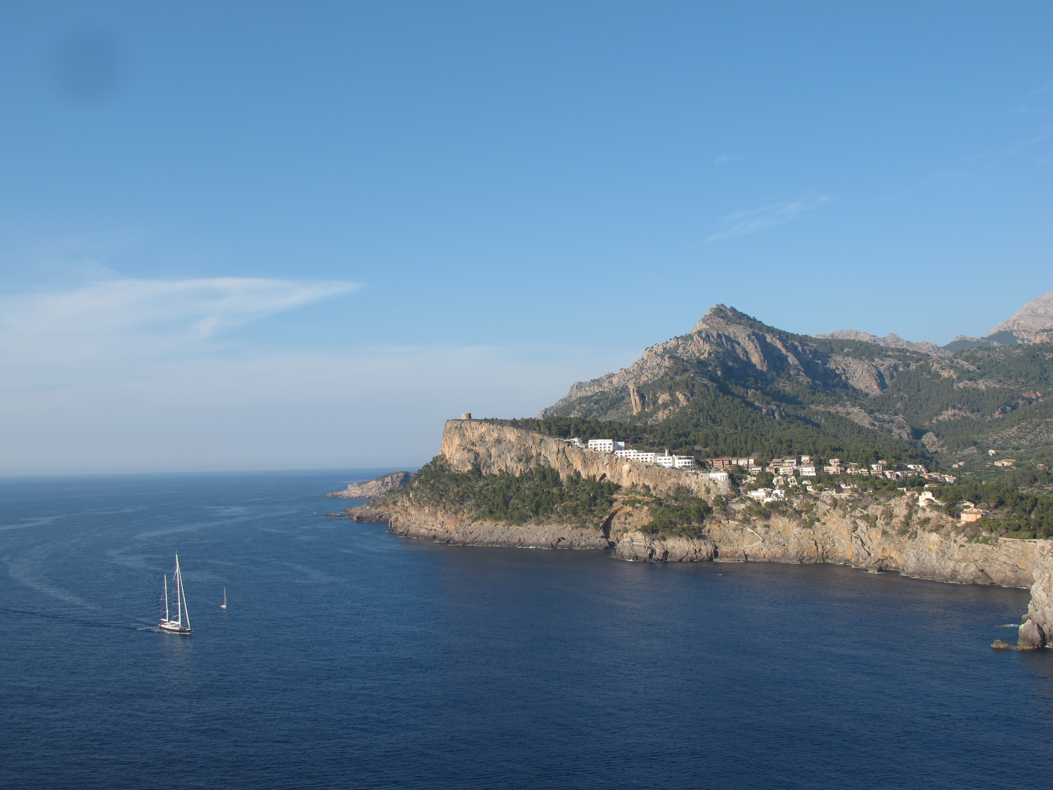 Views of the area located north from the Sóller Bay, with the old defence tower Torre Picada, the housing area bearing the same name near the Jumeirah Hotel and the cliffs of the Serra de Tramuntana. Picture taken from Cap Gros Lighthouse